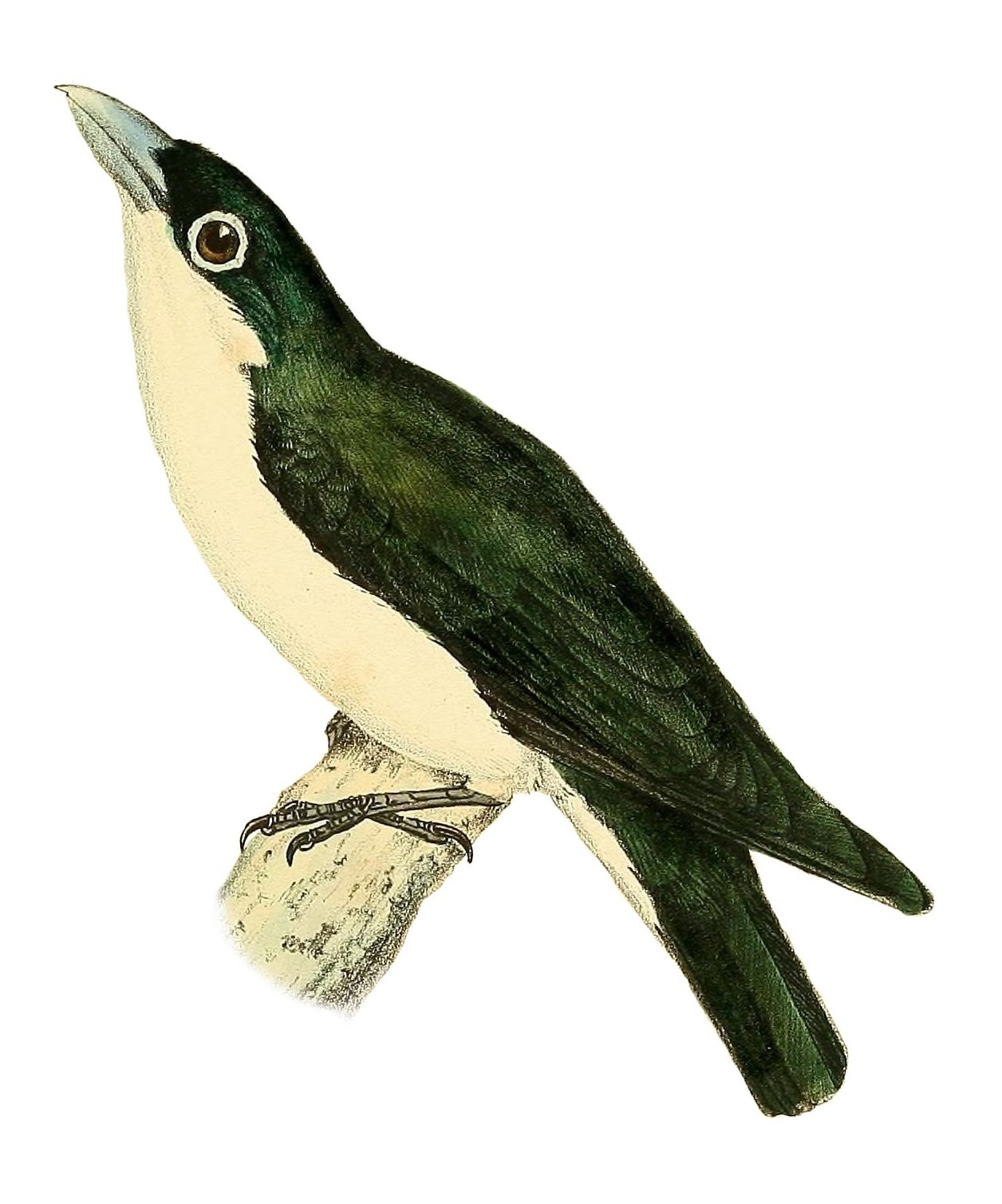 Artamia viridis = Leptopterus chabert (Chabert's Vanga)